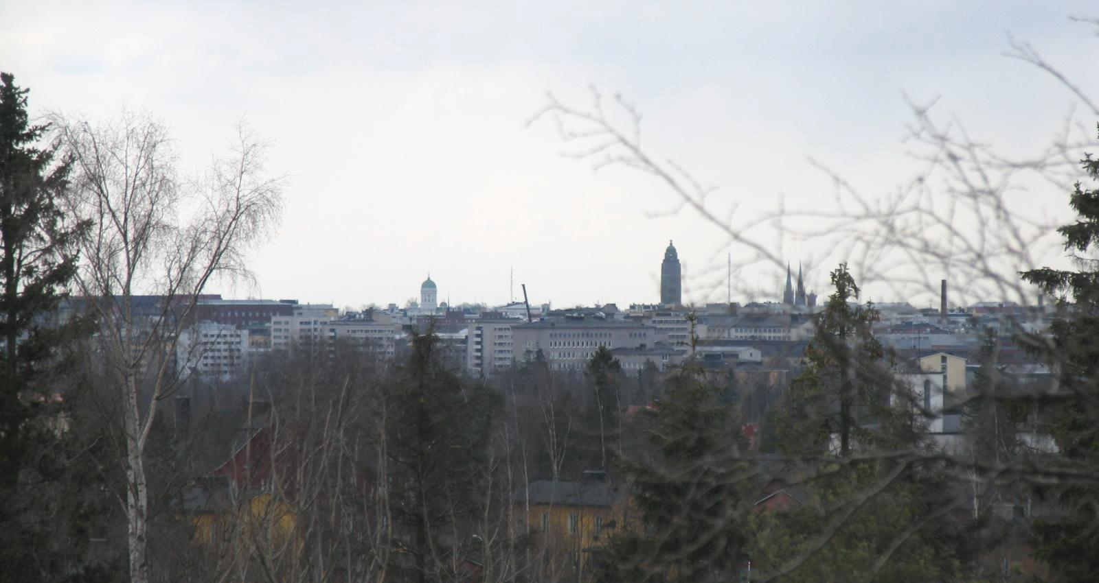 Wiev from Taivaskallio south towards the city centrum of Helsinki